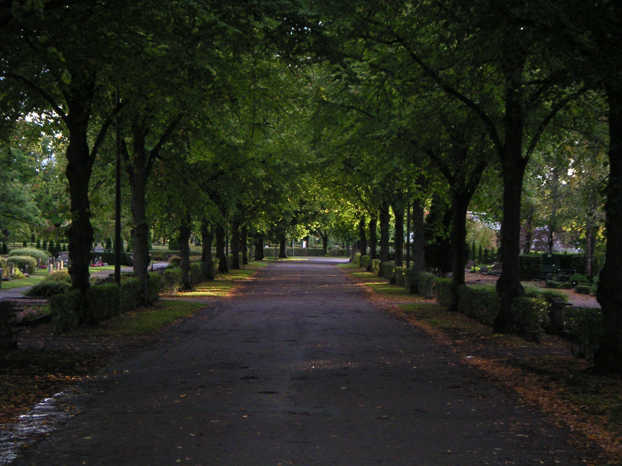 Allée in Uppsala old cemetery. Coordinates of photo: 59.853935,17.621759